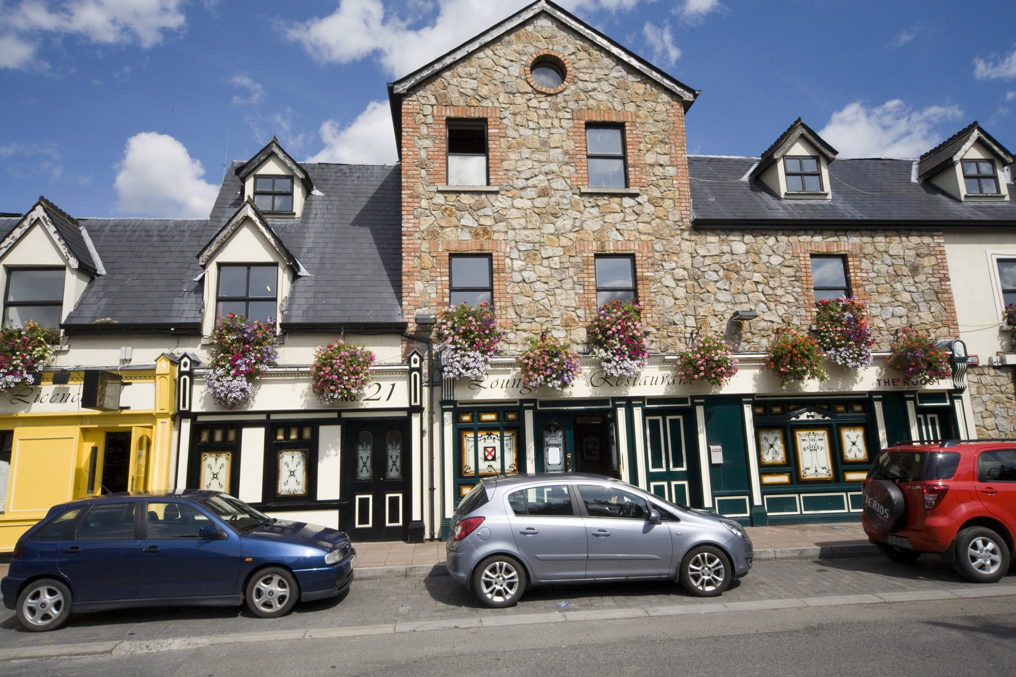 Maynooth (Maigh Nuad in Irish) is a town located in north County Kildare, Ireland. It is located on the R148 road between Leixlip and Kilcock, with the M4 motorway bypassing the town. Other roads connect the town to Celbridge, Clane, and Dunboyne. The ancient name of Maynooth means the plain of Nuada. Nuada is referred to as the maternal grandfather of the legendary Fionn mac Cumhail in the Annals of the Four Masters. Two third-level educational institutions -- St. Patrick's College, Maynooth founded by King George III in 1795 and the National University of Ireland, Maynooth founded in 1997 -- are located in the town. NUI Maynooth is the only university in the Republic of Ireland not situated in a city. The population of 10,715 (2006 Census) makes it the fifth largest town in Kildare and the 35th largest in the Republic of Ireland. A difficulty in measurement is due to the fact that much of the town's population is transient - students at NUI Maynooth or temporary employees at the nearby Intel and Hewlett Packard facilities (both located in Leixlip).